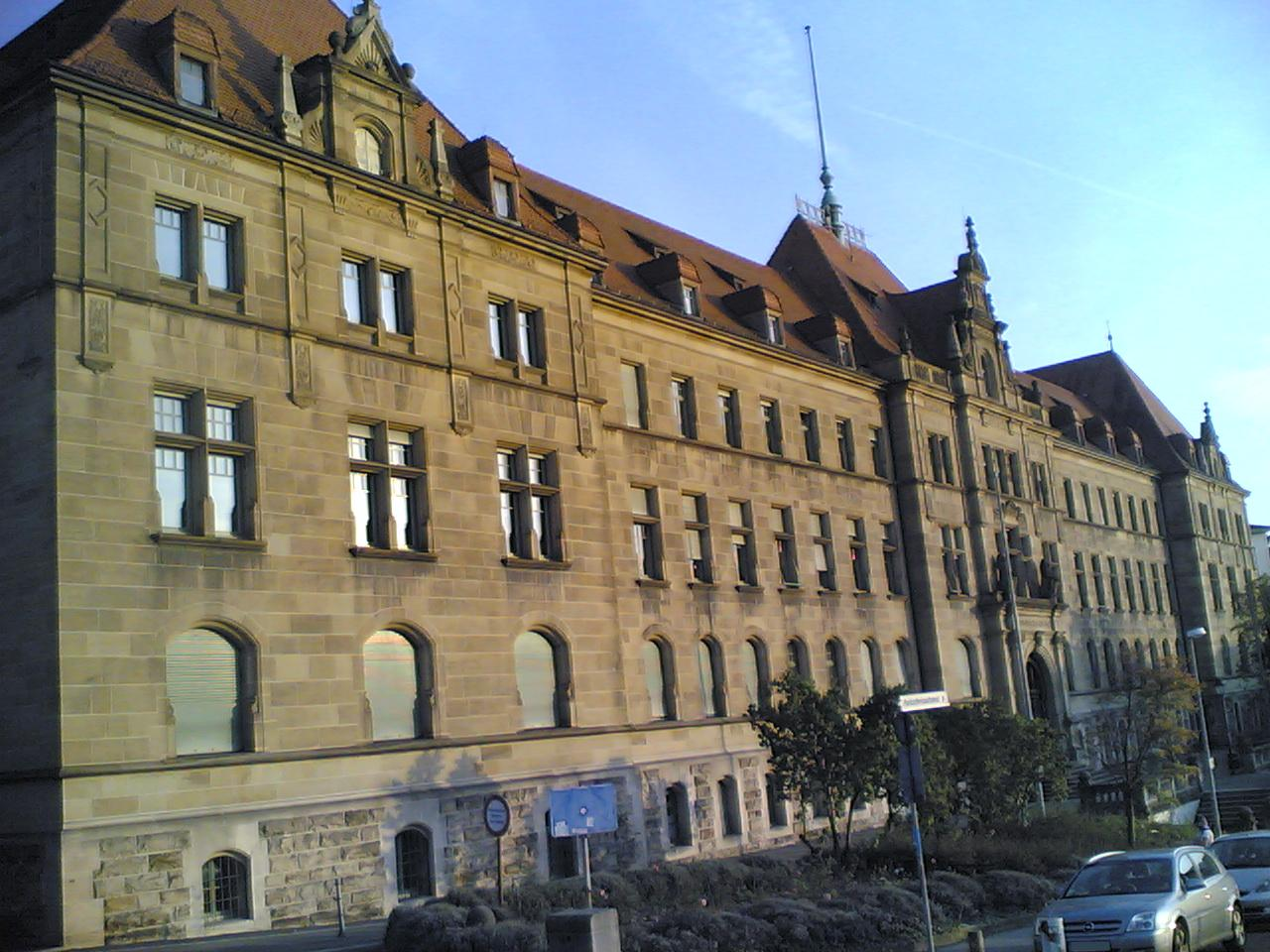 Local and District Court (civil and criminal court) of Tübingen, Germany (front view)